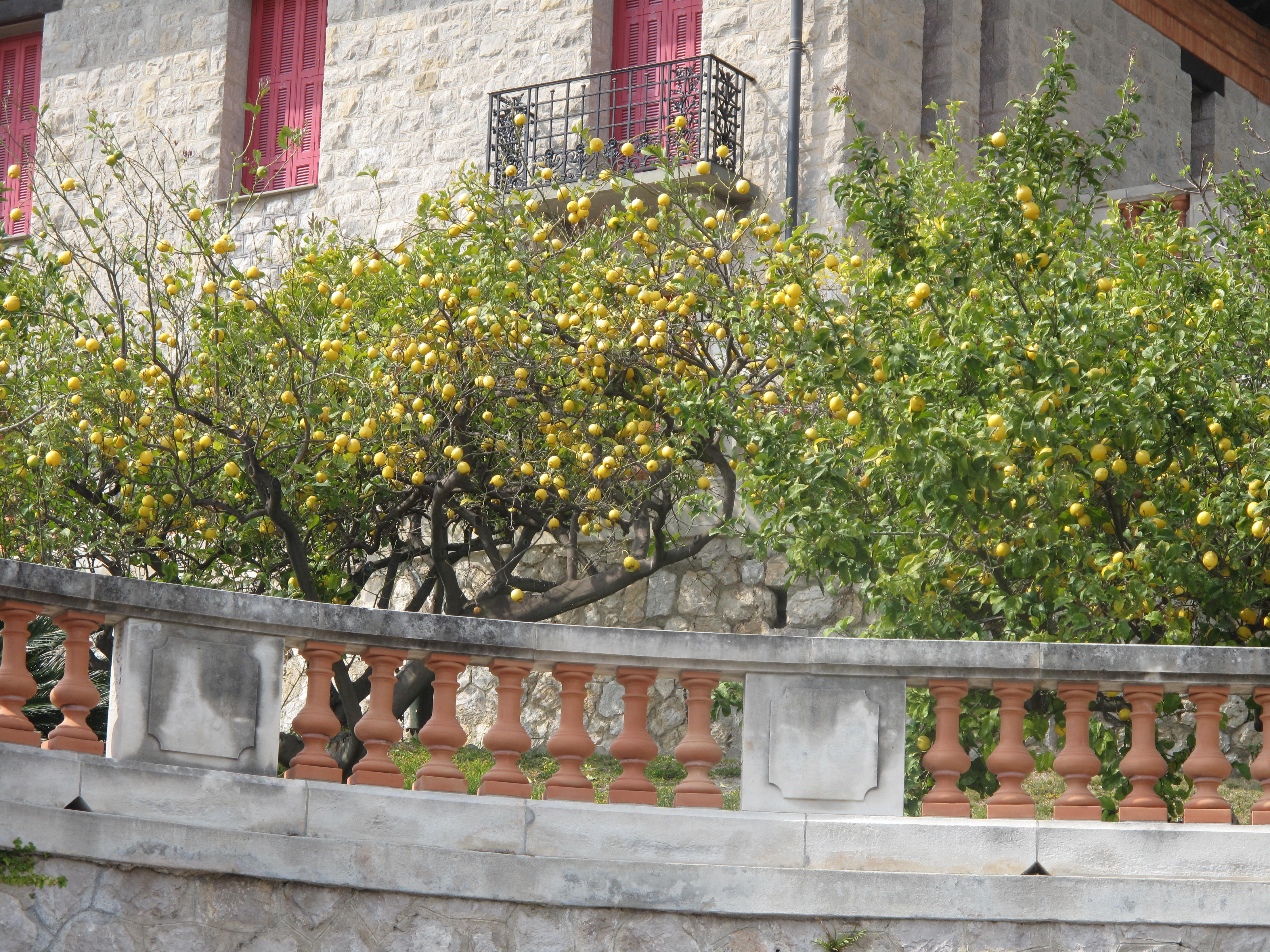 Lemon tree on the boulevard de Super-Garavan : Menton (Alpes-Maritimes, France).